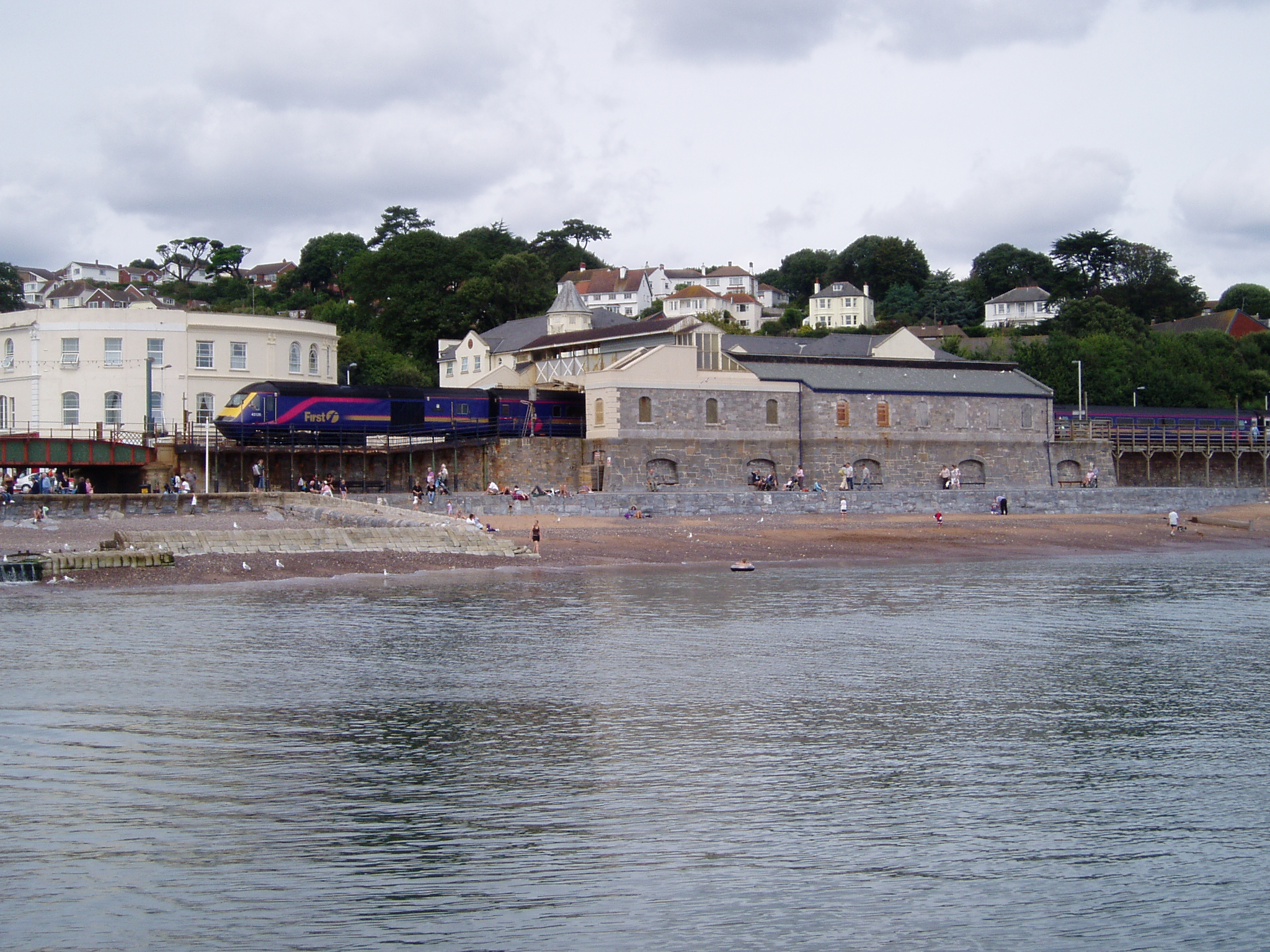 First Great Western Train at Dawlish Station, Devon, UK